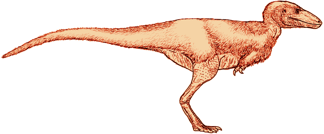 Alectrosaurus size chart reconstruction by Tom Parker.